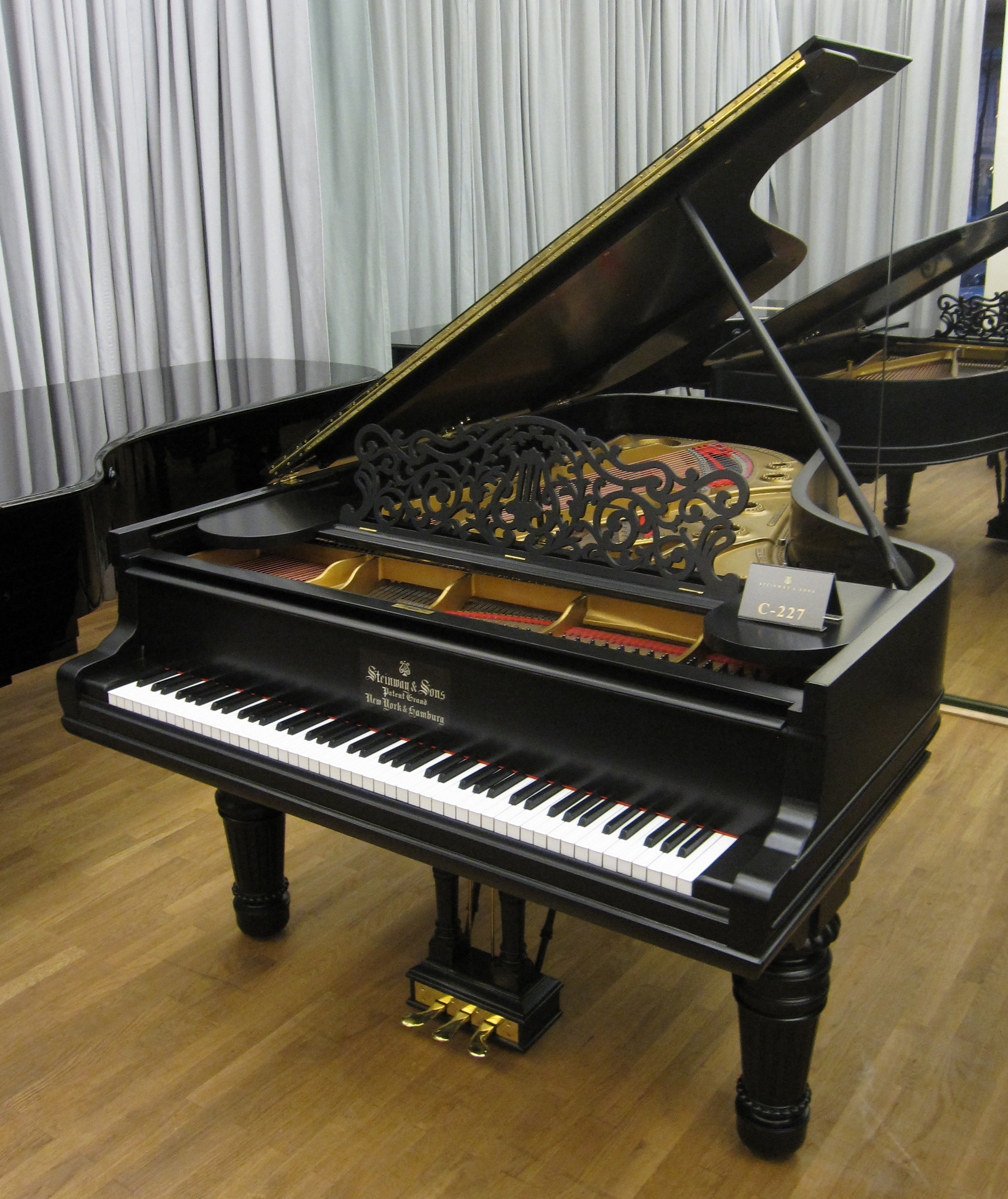 A grand piano by Steinway & Sons, model C-227, in Steinway-Haus Wien (Steinway Hall Vienna)